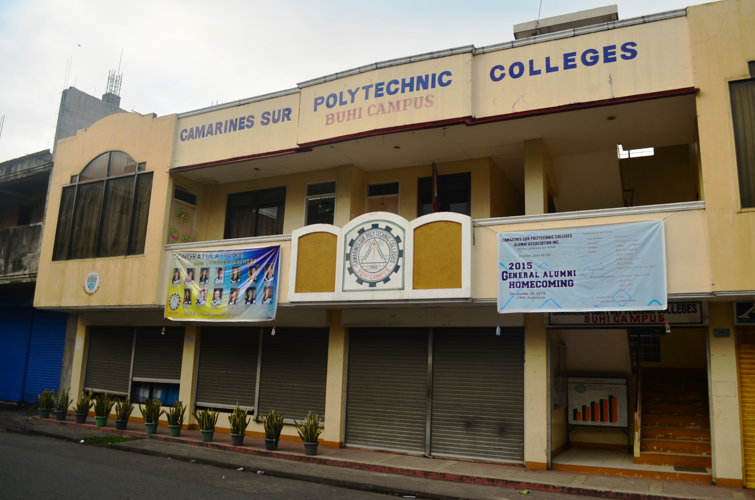 Camarines Sur Polytechnic Colleges at Buhi